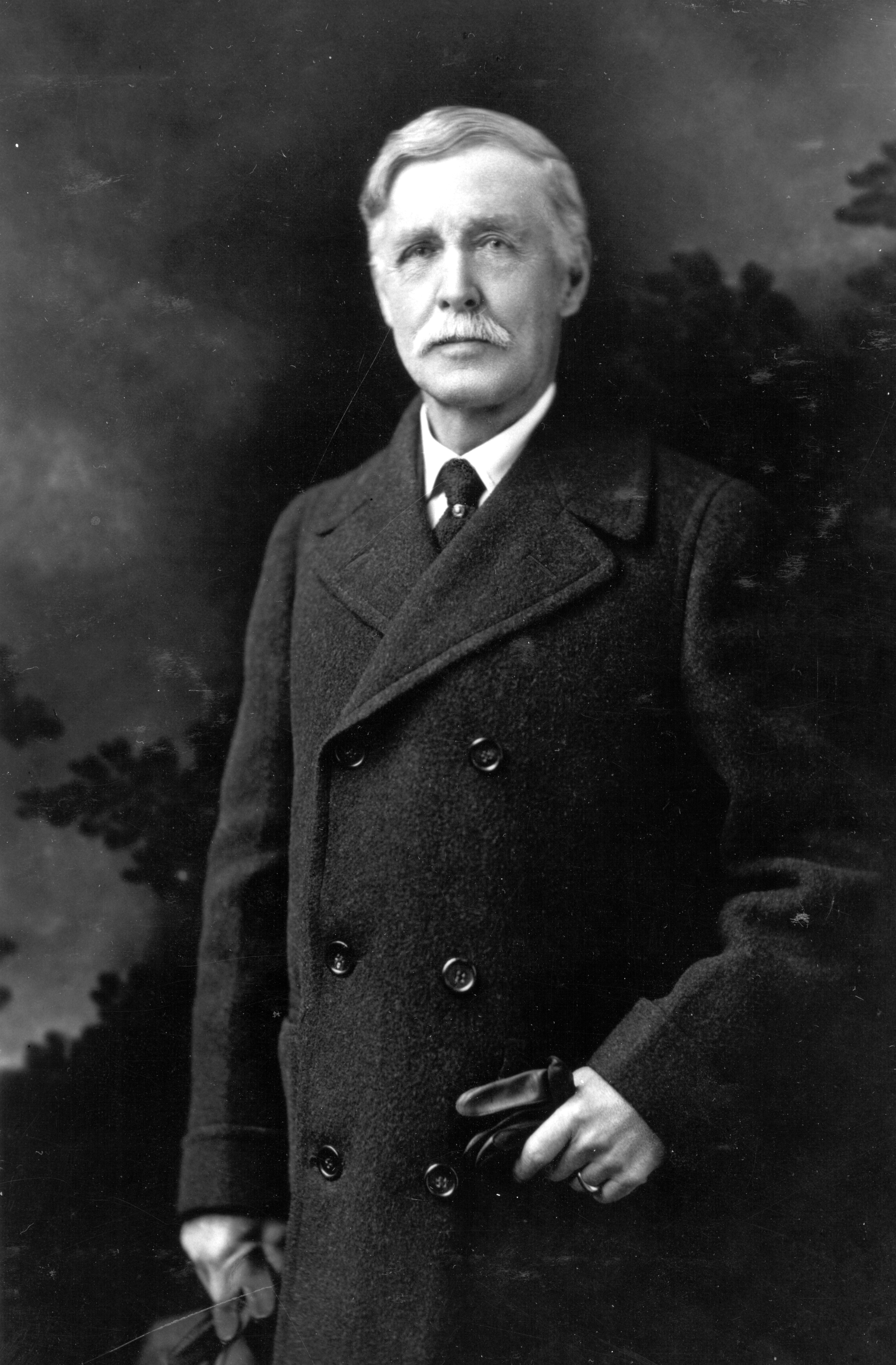 William Henry Jackson, pioneer photographer